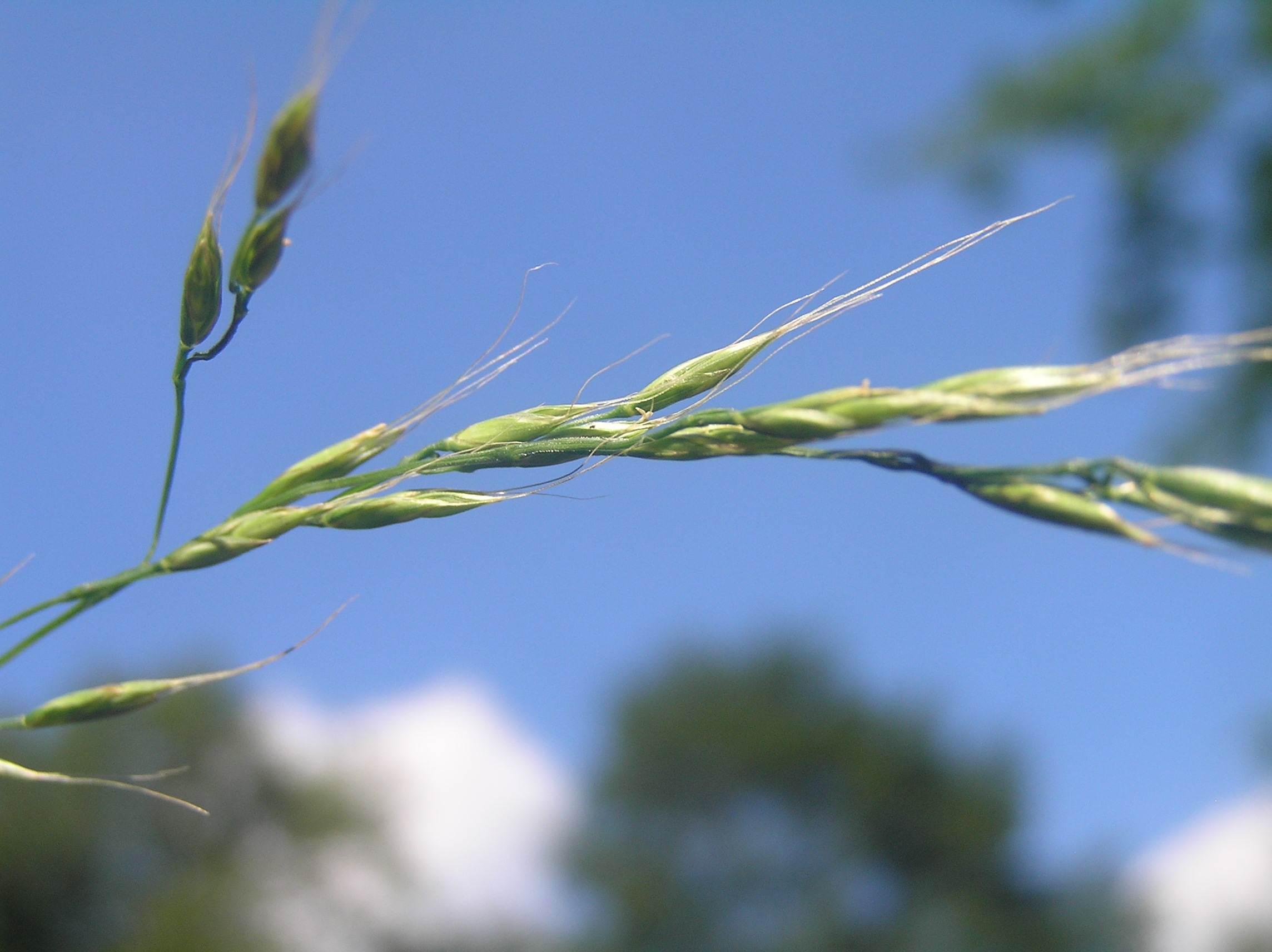 Festuca gigantea, Choceň, Czech Republic